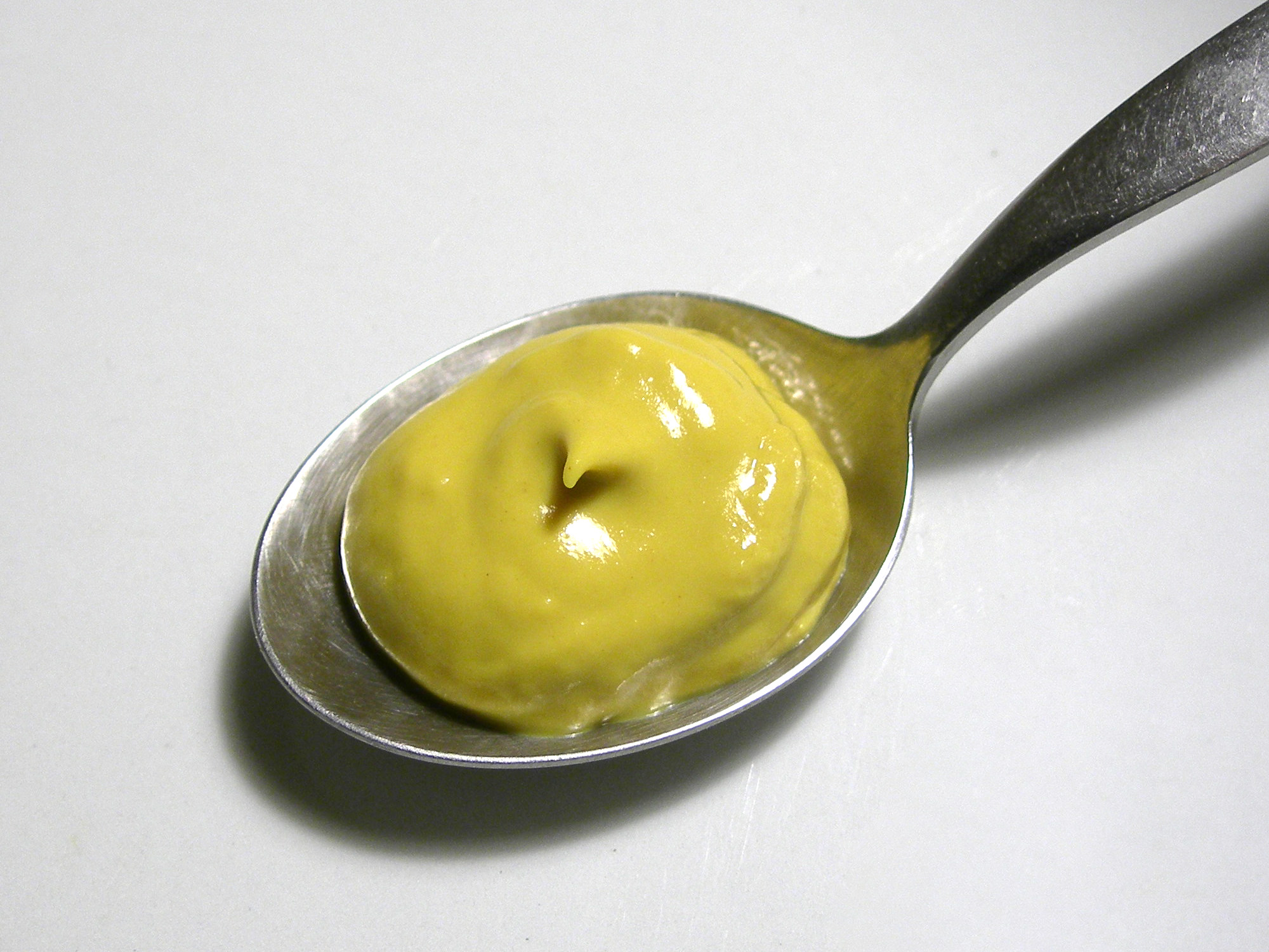 Prepared mustard, coloured with curcuma